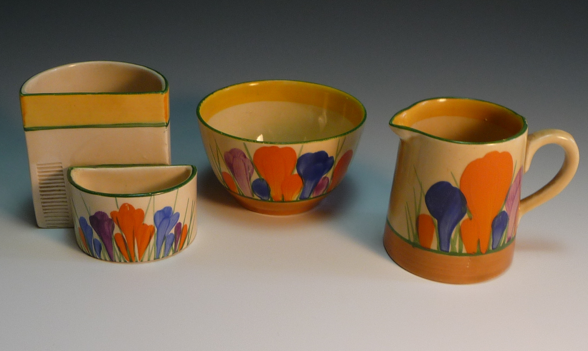 Clarice Cliff Crocus design